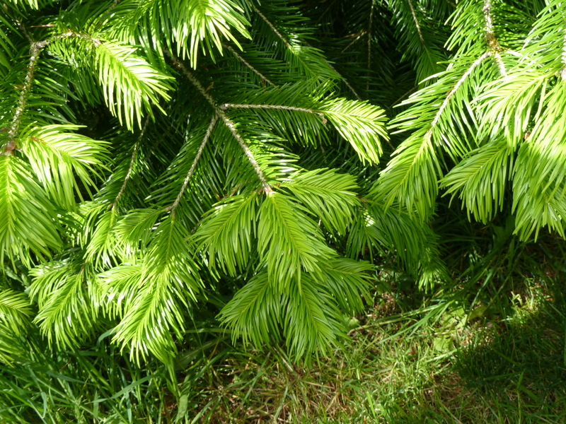 Abies pindrow, cultivated at Birr Castle and Gardens, in the town of Birr in County Offaly, Ireland.